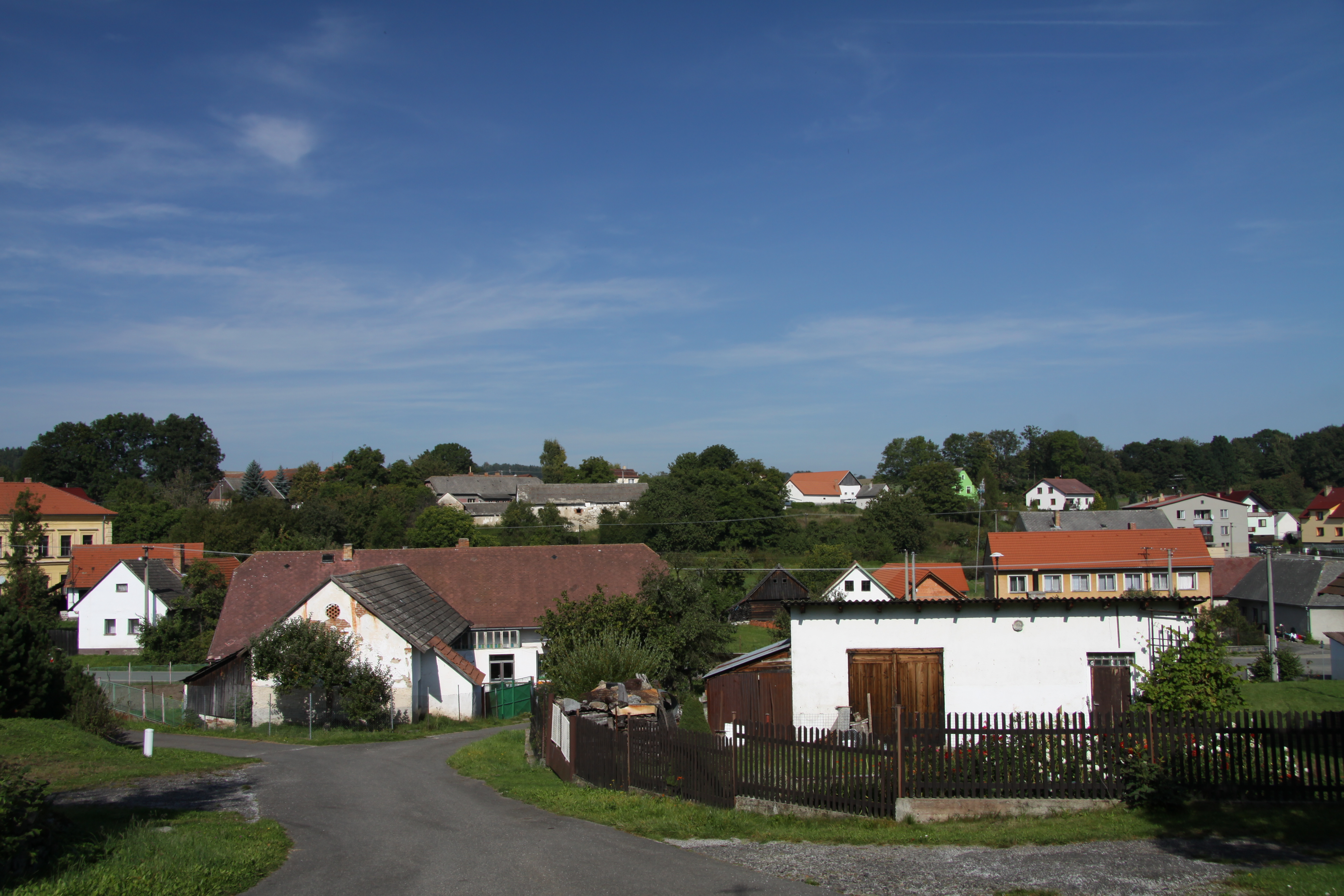 Ratiboř, part of Chyšky village in Písek District, Czech Republic